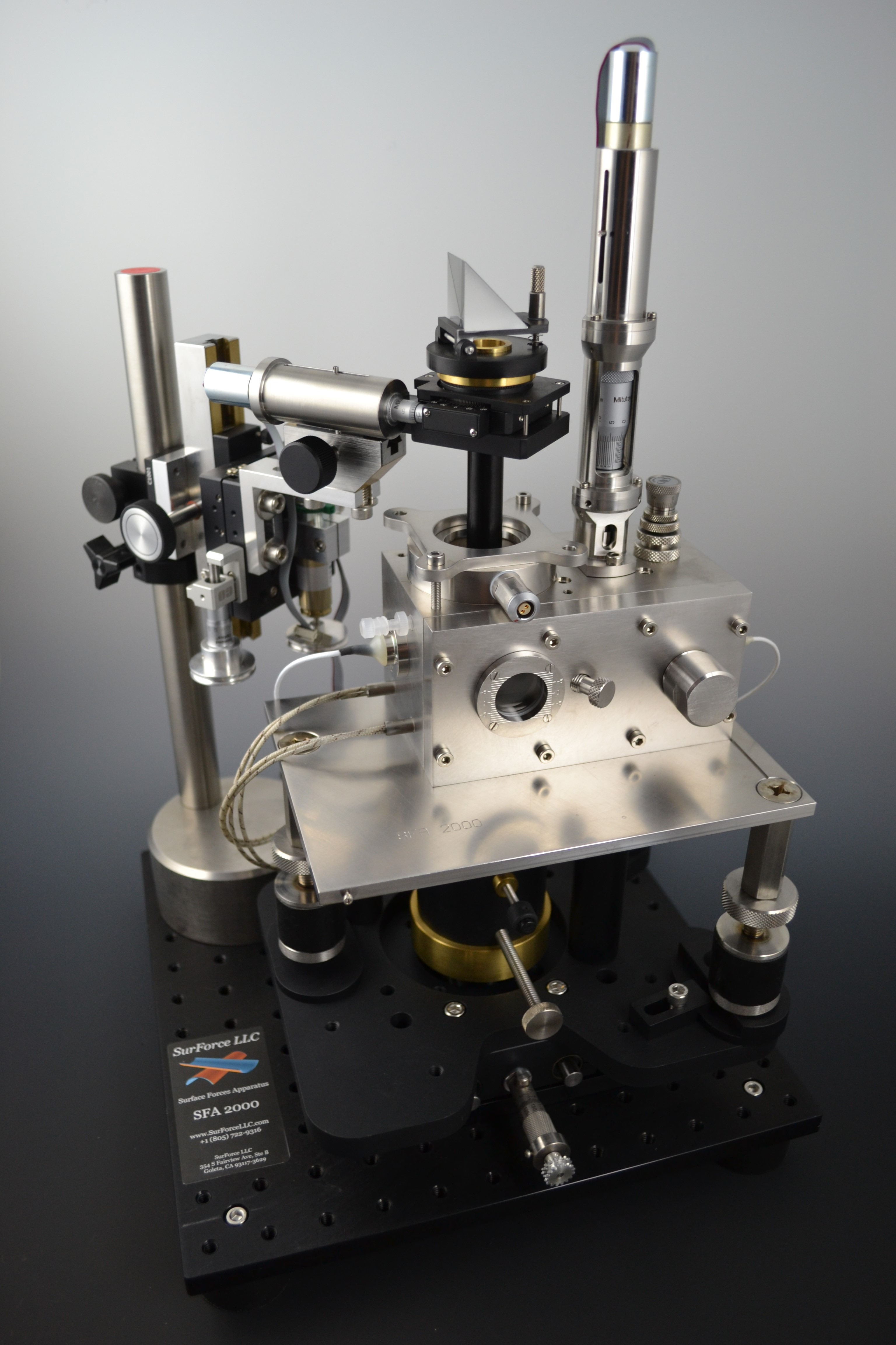 A Surface Force Apparatus. The model featured in the photo is a SFA2000.